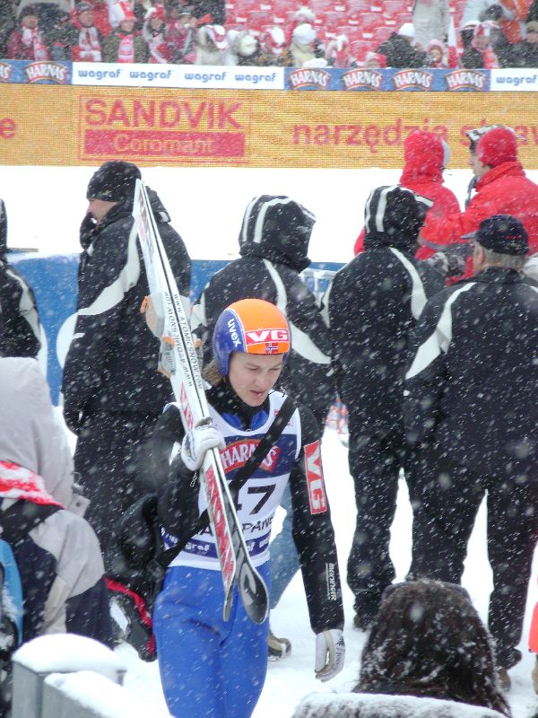 ski jumper Tom Hilde from Norway during the World Cup in Zakopane on 27-1-2008